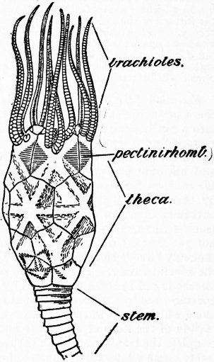 Chirocrinus alter, one of the Rhombifera, showing the reduced number and regular arrangement of the thecal plates, and the concentration of the brachioles. (Adapted from Jaekel.)